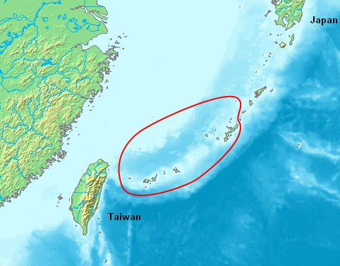 Location of the Islands belonging to Okinawa prefecture, Japan. Not include the Daitō Island.